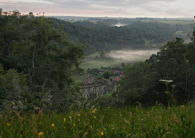 Rievaulx Abbey and the Rye Valley. Taken at dusk from the Terrace on the East side of the Rye valley.